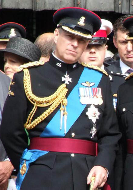 Duke of York